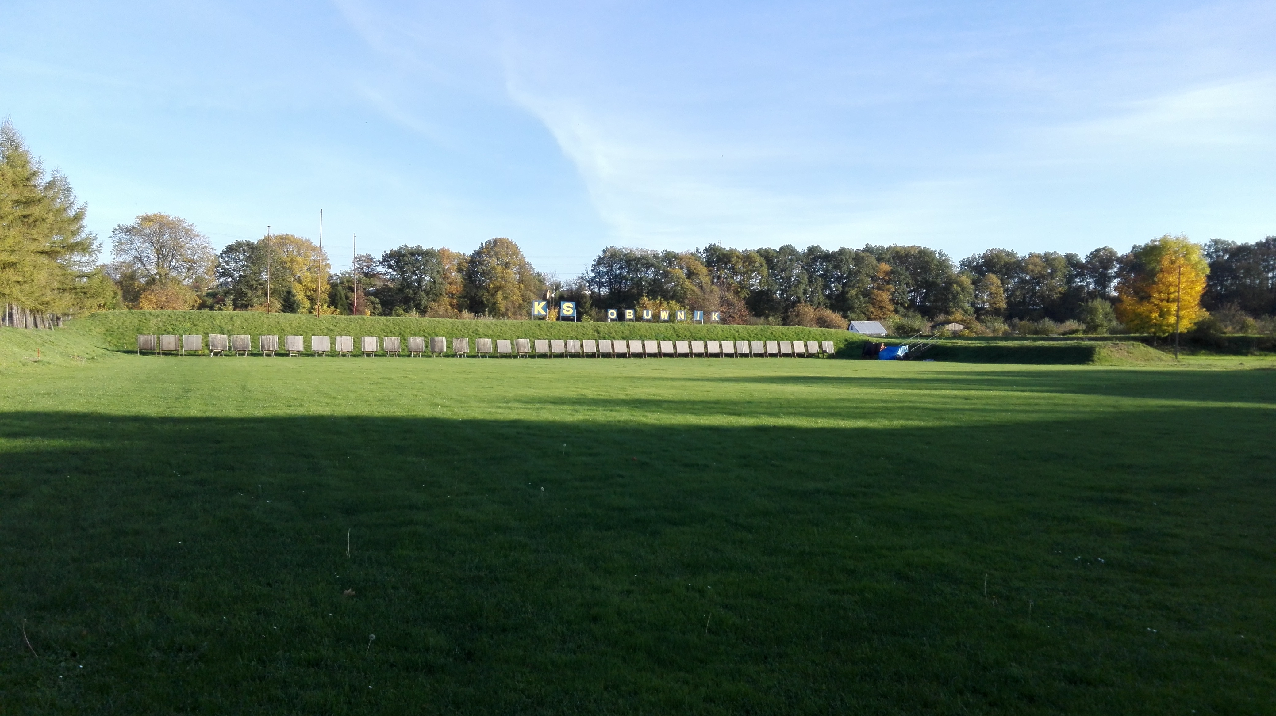 Archer Course - Łucznicza Street in Prudnik